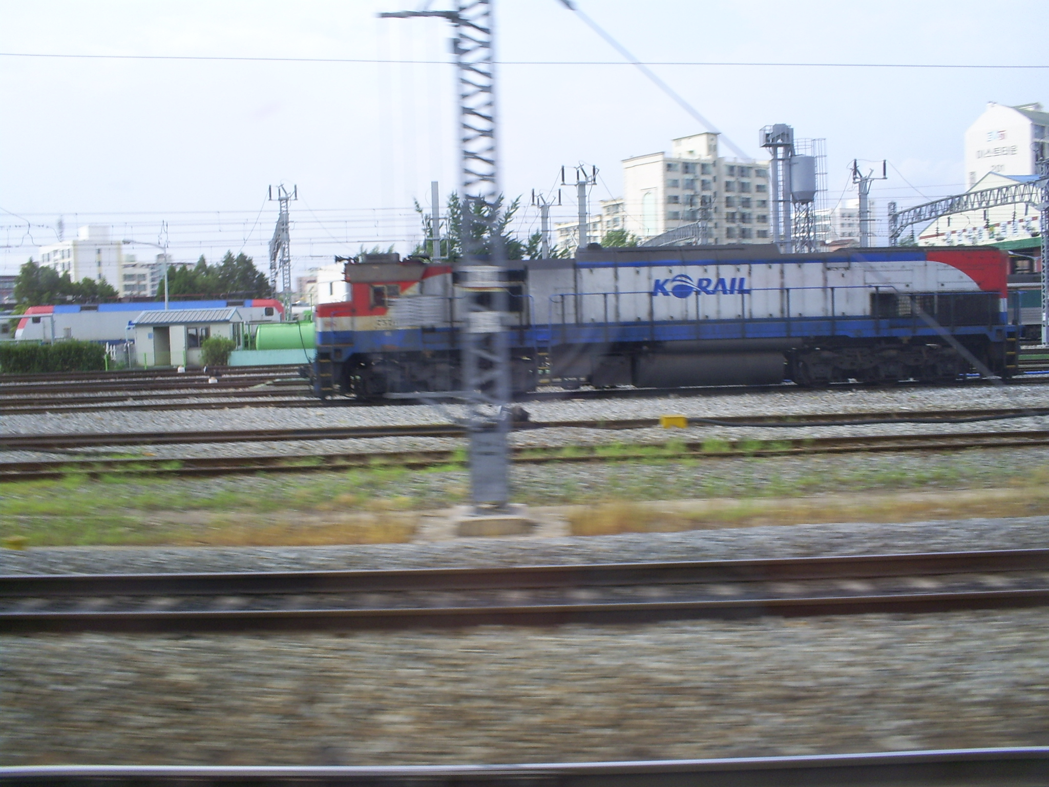 Korail 7576 near Dongdaegu station.